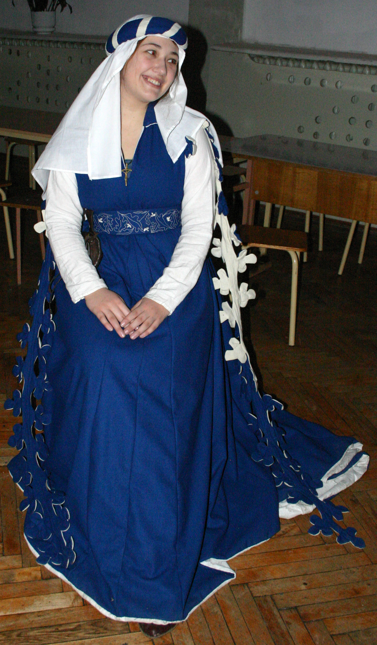 Girl in the medieval dress with festons